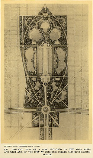 published in The Chicago Plan by Daniel Burnham in 1909 it is now in the public domain Carptrash 22:51, 7 November 2006 (UTC)